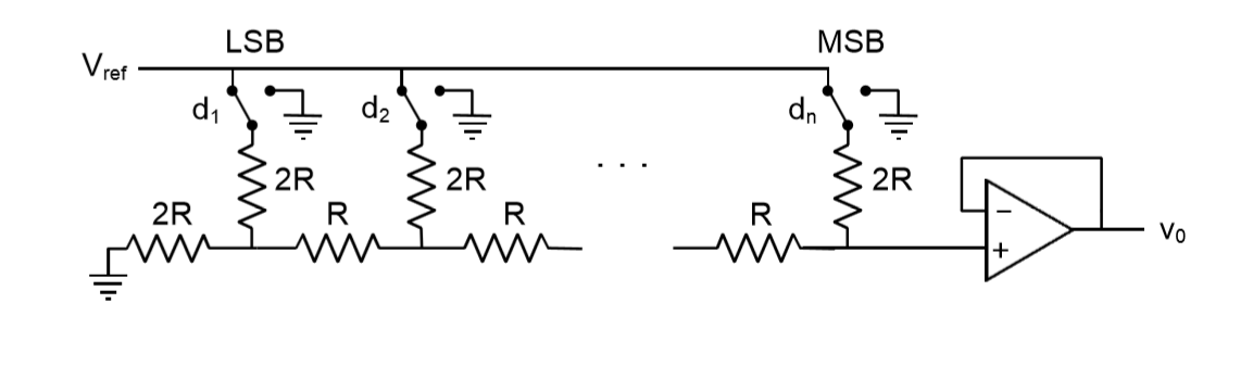 Conversor R-2R en modo tensión